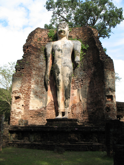 Wat Phra Si Iriyabot, Kamphaeng Phet Province.